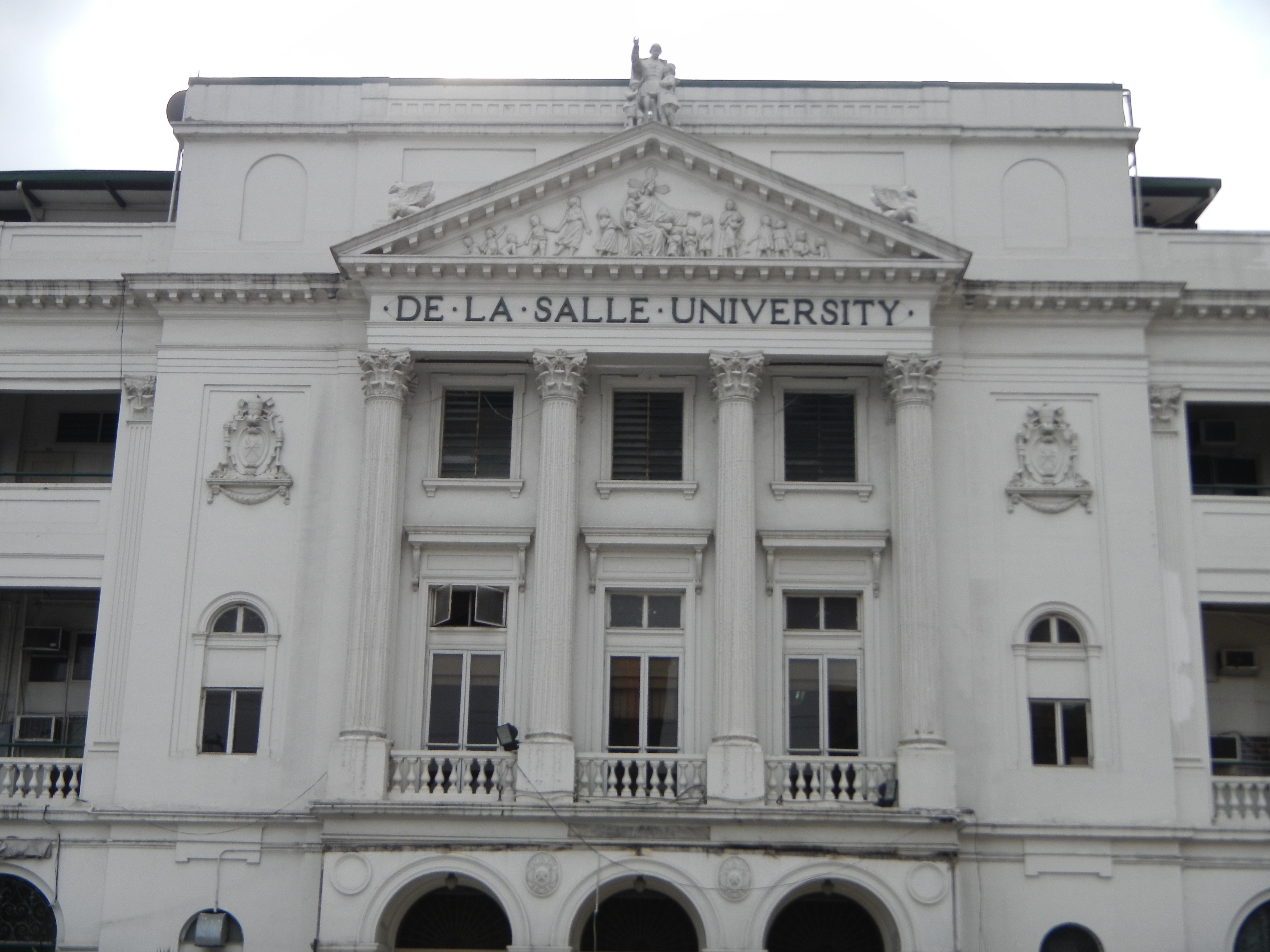 Upload Wizard photos of - a) Philippine Trade Training Center [1] Department of Trade and Industry (Philippines) [2] Gil Puyat Avenue[3] cor. Roxas Boulevard,[4] 1300 Pasay City, b) De La Salle University [5] and c) Scottish Rite Temple - Scottish Rite Freemasonry 1917 J. Nakpil and Remedios Streets in Manila. T 1828 Taft Avenue Jacques Demolay Memorial No. 305. Freemasonry in the Philippines[6] Battle of Manila List of Masonic Grand Lodges[7] [8]